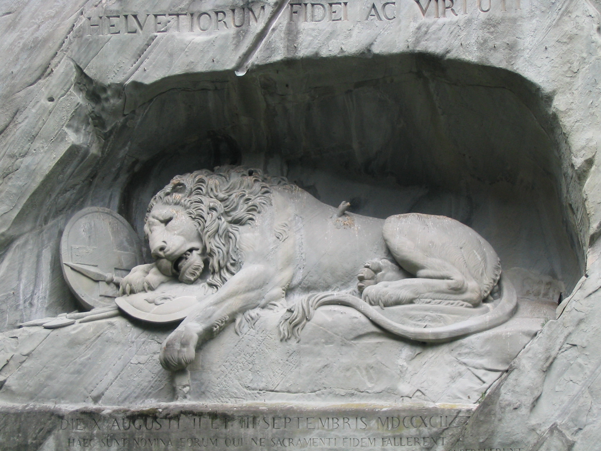 The Lion Monument (Löwendenkmal) in Lucerne, Switzerland.